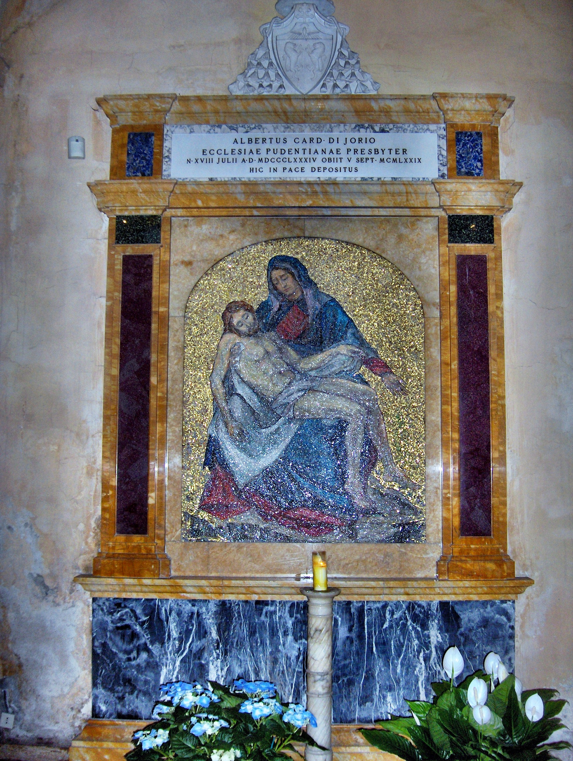 "Pietà"; tomb of Cardinal Albertus di Jorio, titular of the church of Santa Pudenziana, Rome, Italy